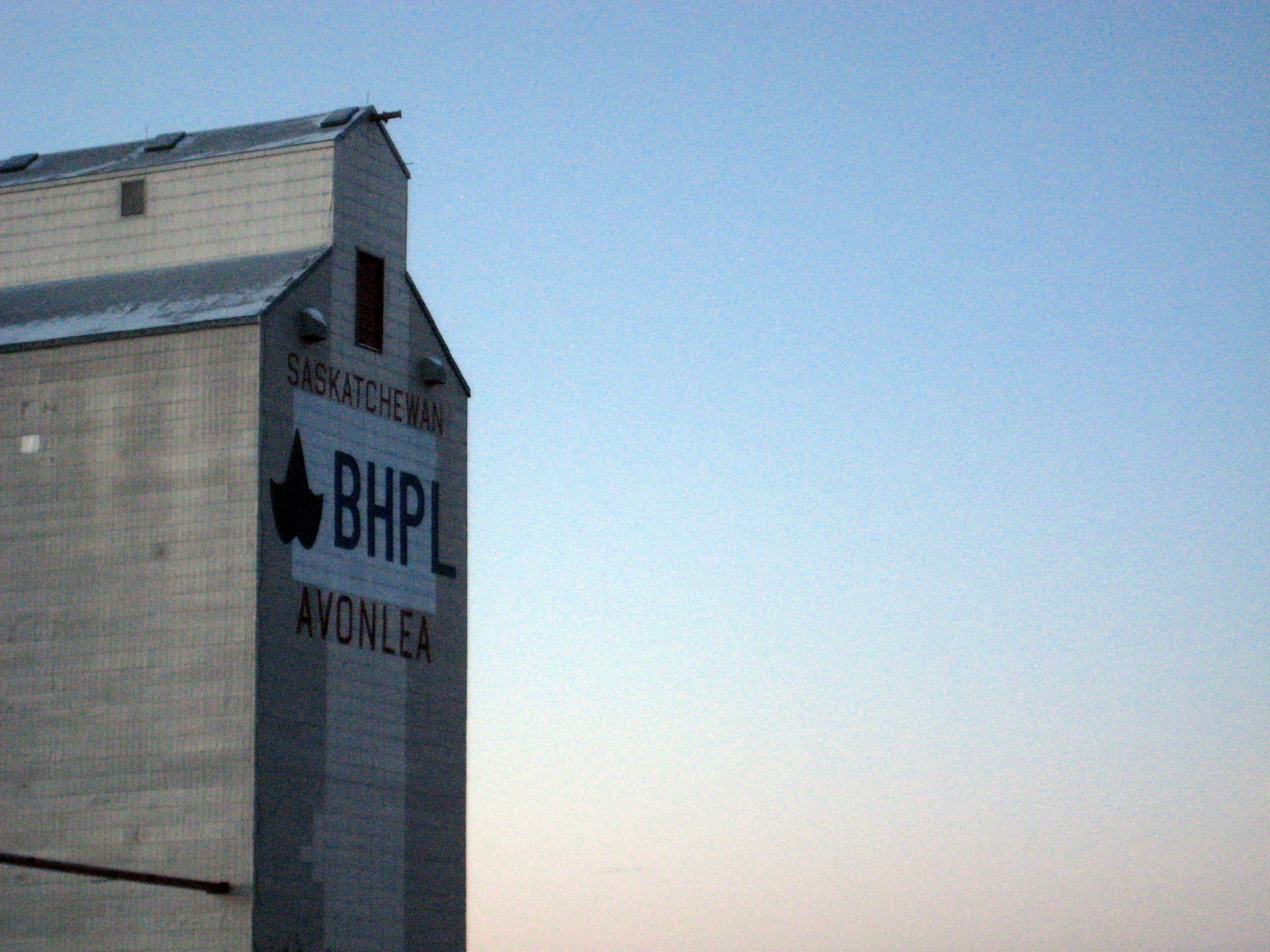 A classic Saskatchewan landmark.